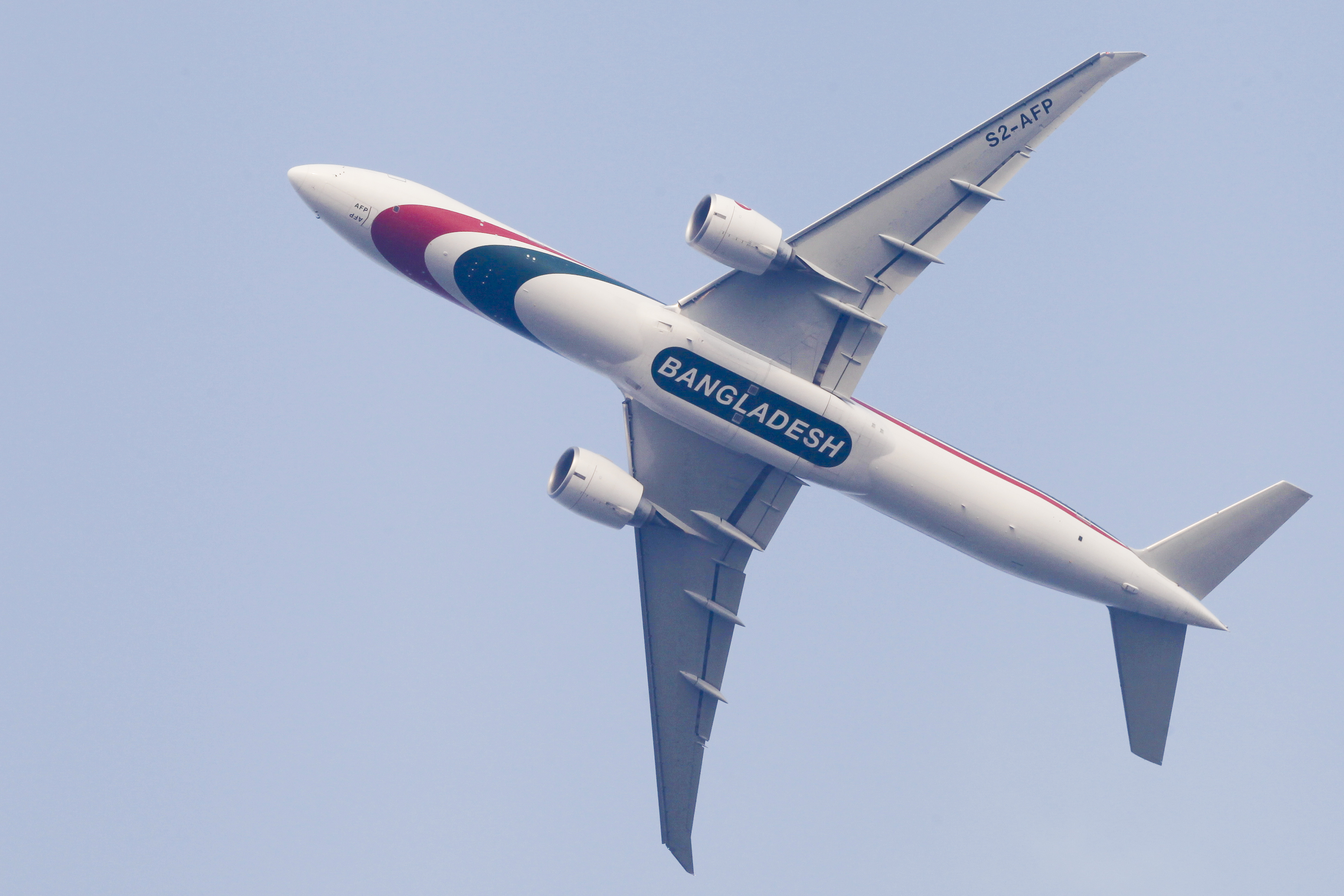 Biman Bangladesh Airlines Boeing 777-3E9ER S2-AFP Flying Over My Rooftop